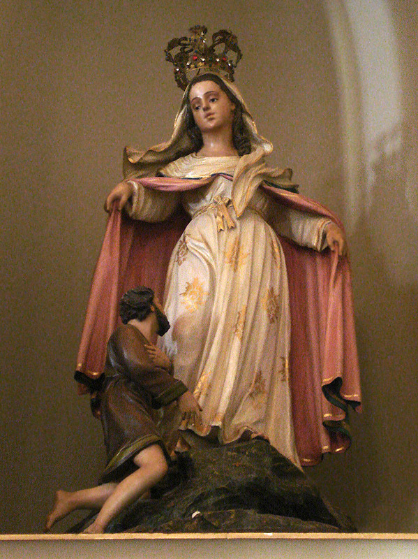 Our Lady of the Mercy, XVIII-XIX century, Chapel Nosso Senhor dos Passos in Santa Casa de Misericórdia de Porto Alegre, Brazil